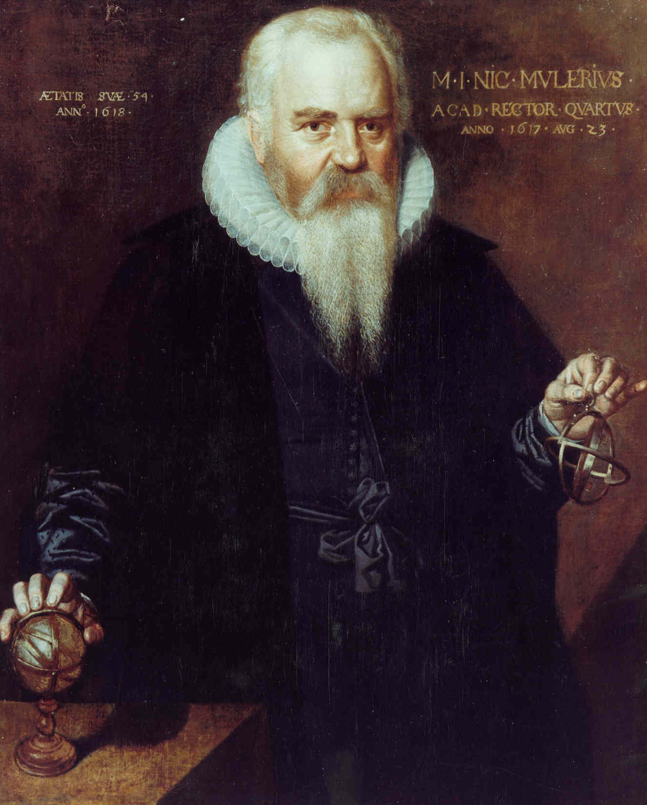 Nicolaas Mulerius (1564-1630)